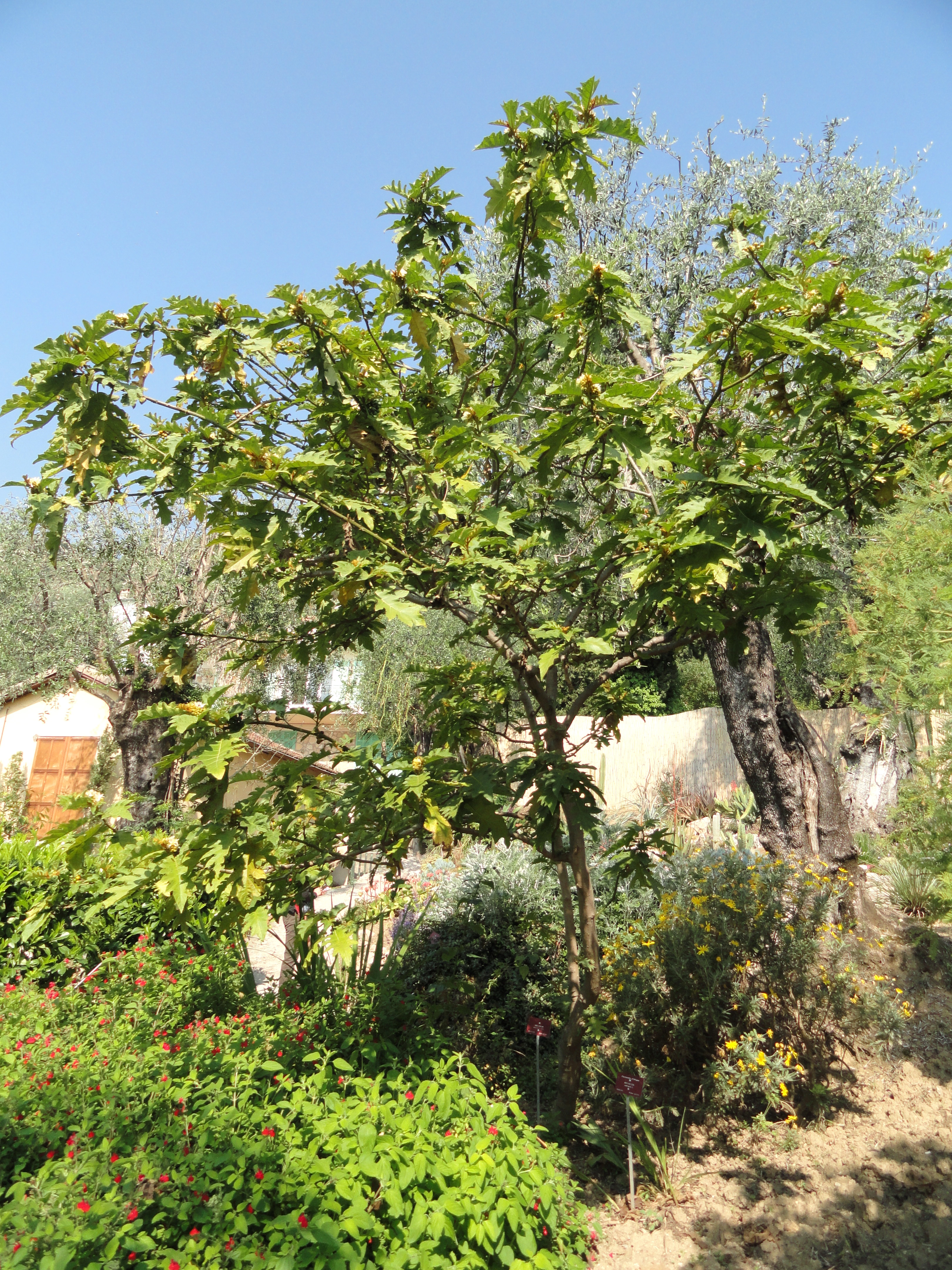 Solanum warscewiczii specimen in the Jardin botanique du Val Rahmeh, Menton, Alpes-Maritimes, France.